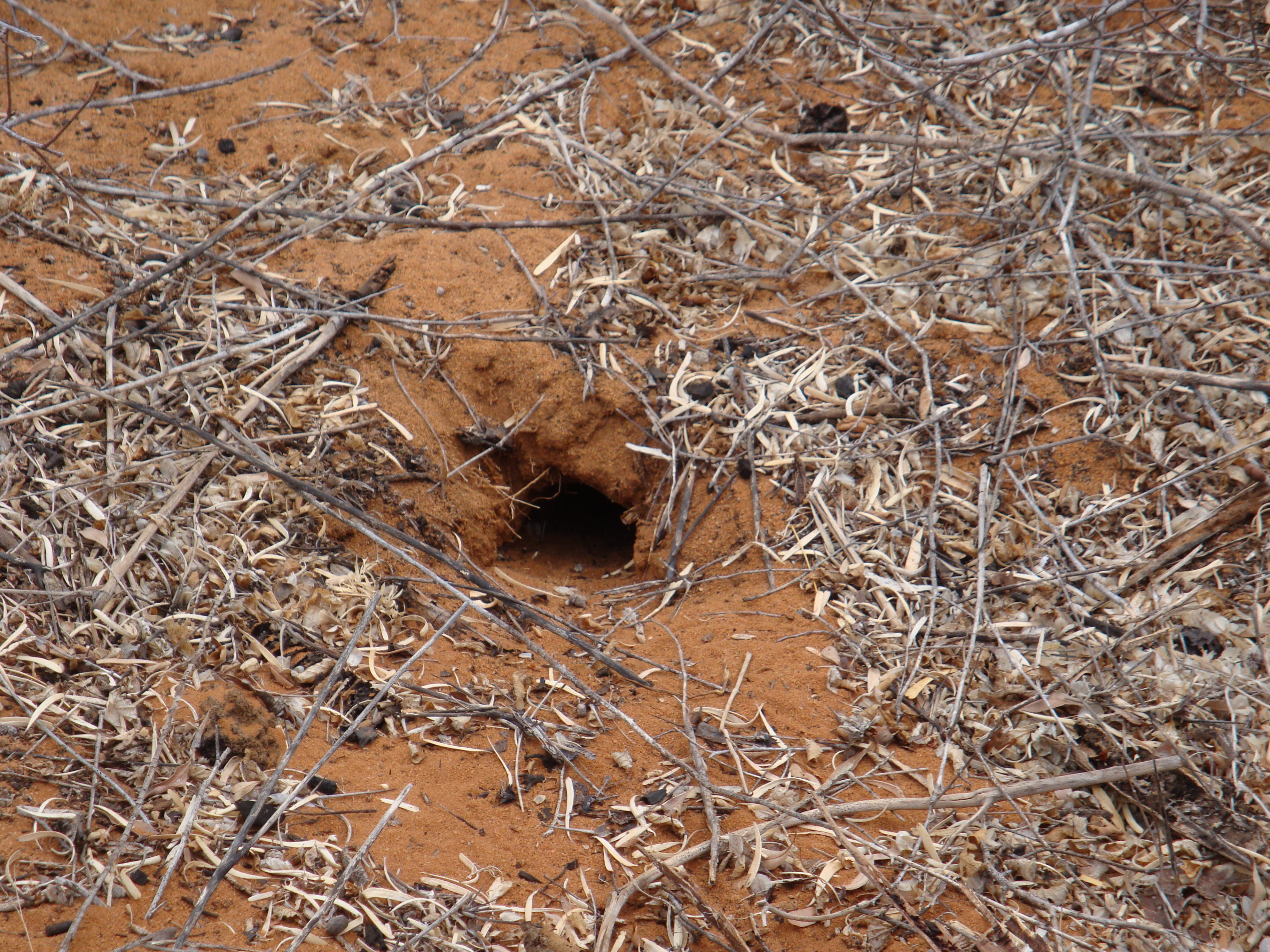 Burrow entrance of Long-tailed Ground-Roller (Uratelornis chimaera), near Ifaty, Madagascar